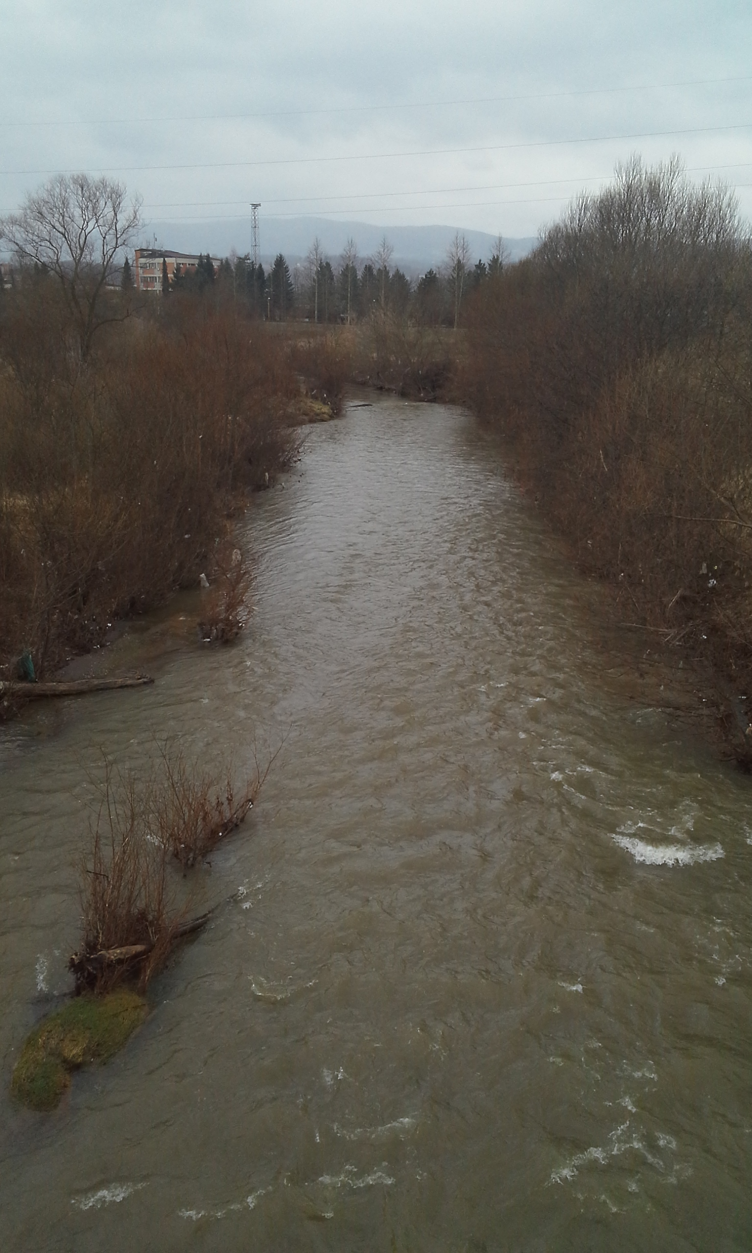 Skrapez in March